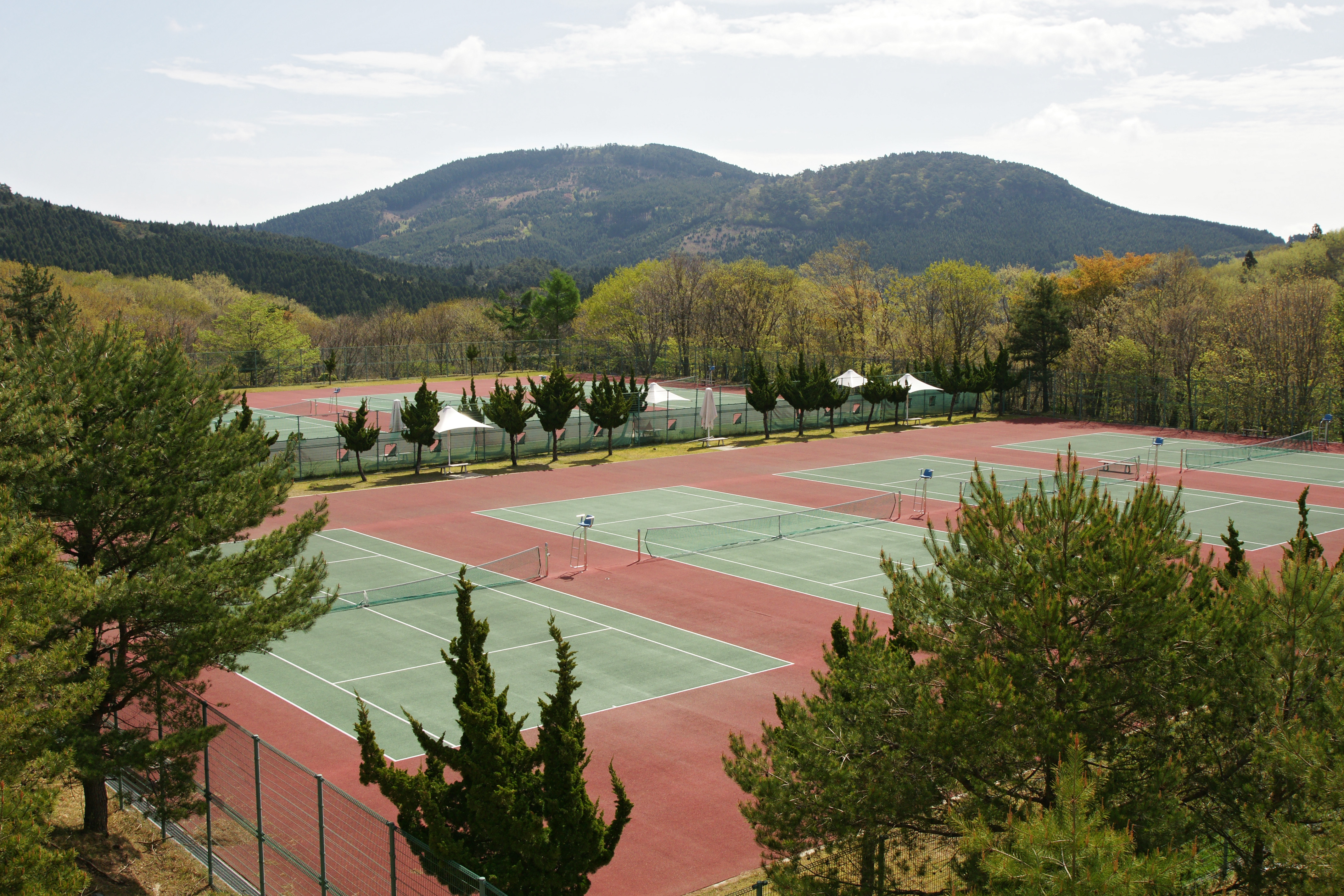 Relaxia Mineyama Kogen Hotel in Mineyama highlands, Kamikawa, Hyogo prefecture, Japan.